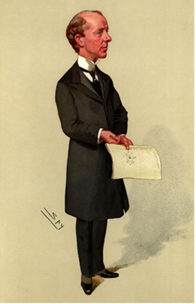 McKenna, Reginald - “In the Winning Crew”.